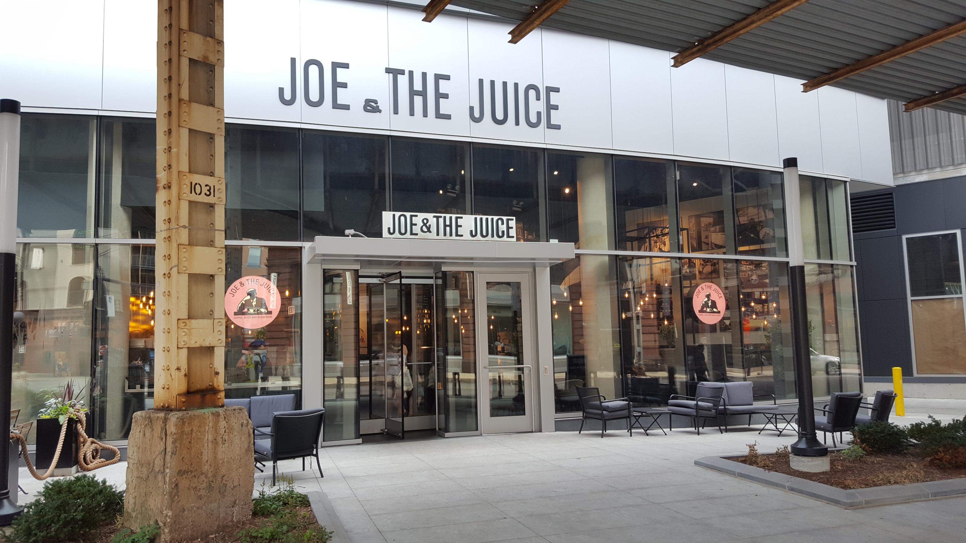 This is, as of 2018, one of three Joe & The Juice locations in Chicago.